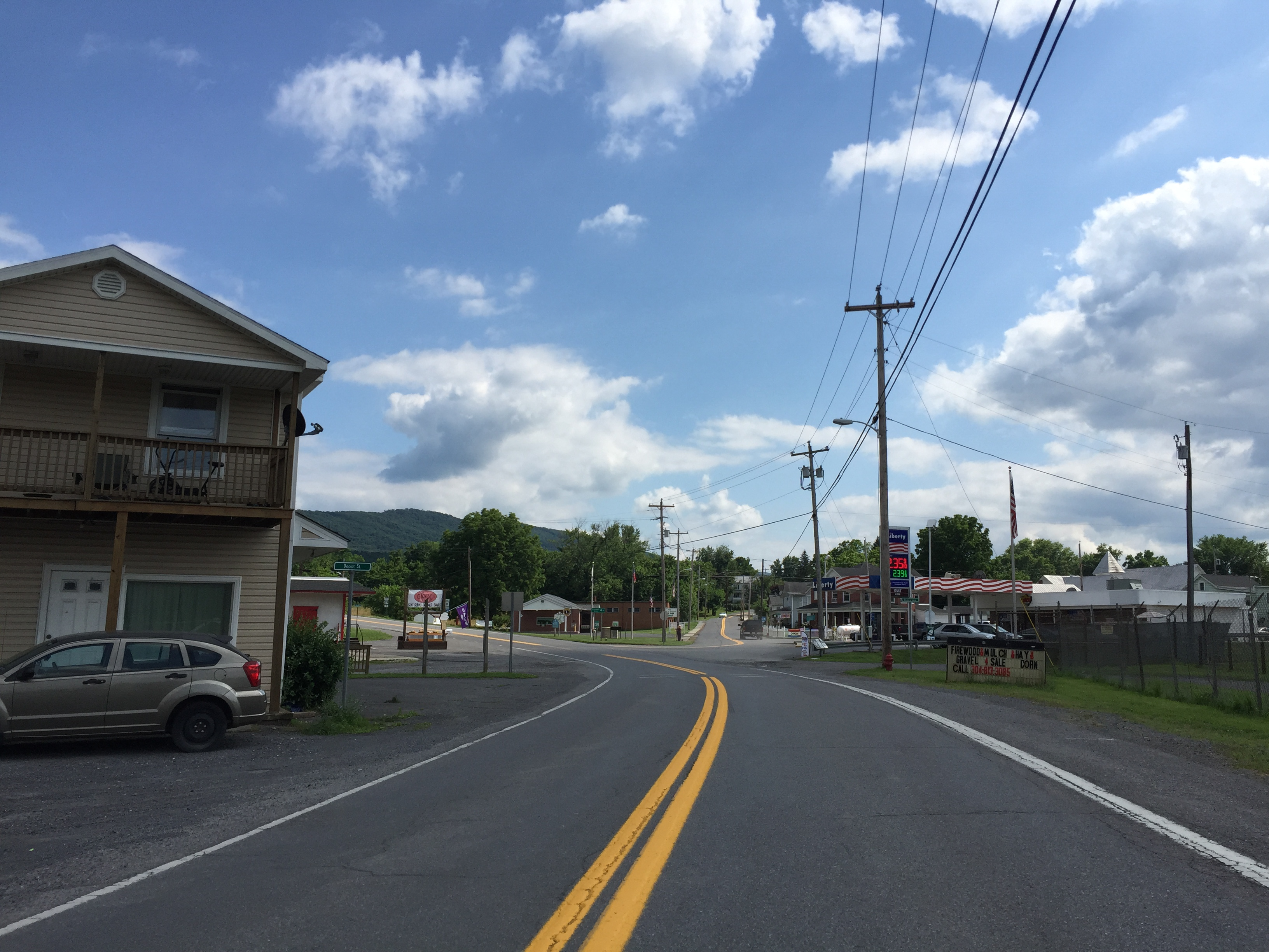 View east along West Virginia State Route 9 (Henry W Miller Highway) at Depot Street in Paw Paw, Morgan County, West Virginia